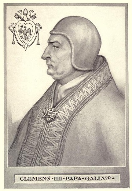 This illustration is from The Lives and Times of the Popes by Chevalier Artaud de Montor, New York: The Catholic Publication Society of America, 1911. It was originally published in 1842.